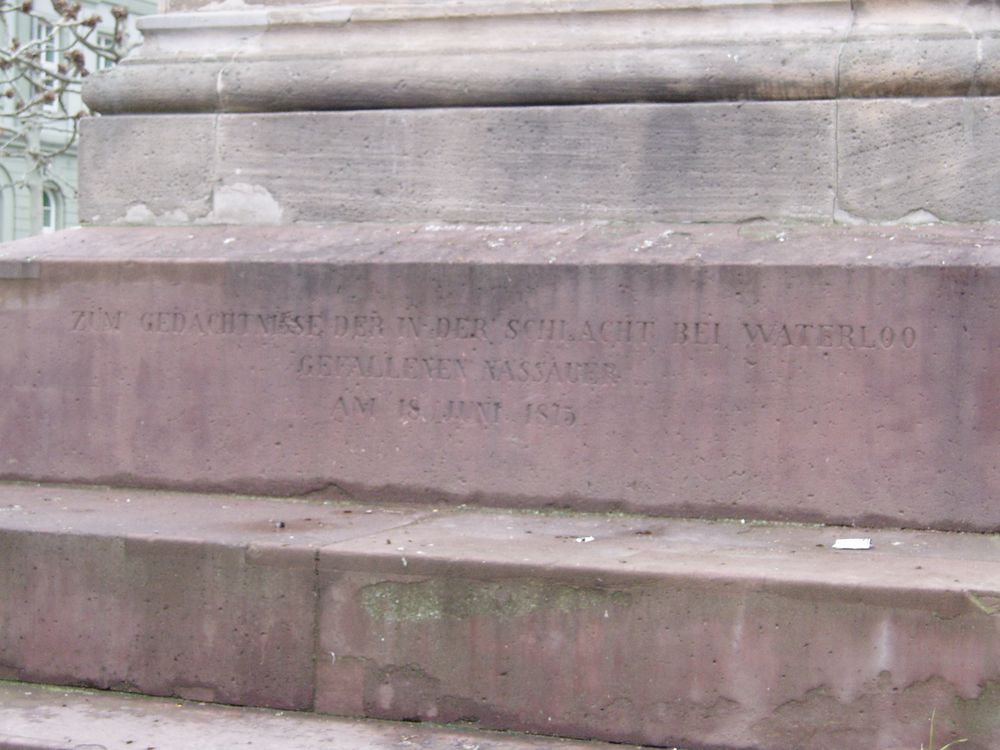 Waterloo memorial in wiesbaden - photographed by me. Text translated to